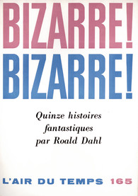 Roald Dahl: Bizarre! Bizarre! Quinze histoires fantastiques, L'Air du Temps 165, Paris 1962 - French translation of the collection of short stories Someone Like You.